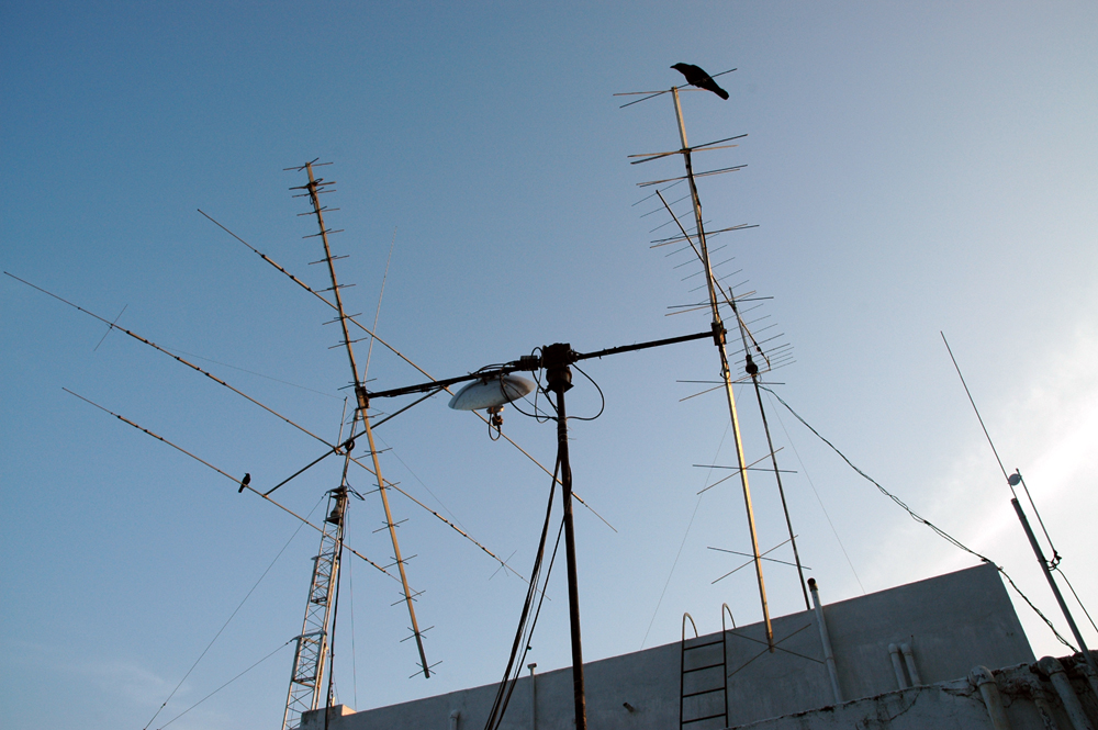 Amateur Radio antennas of Gopal VU2GMN in Chennai, India